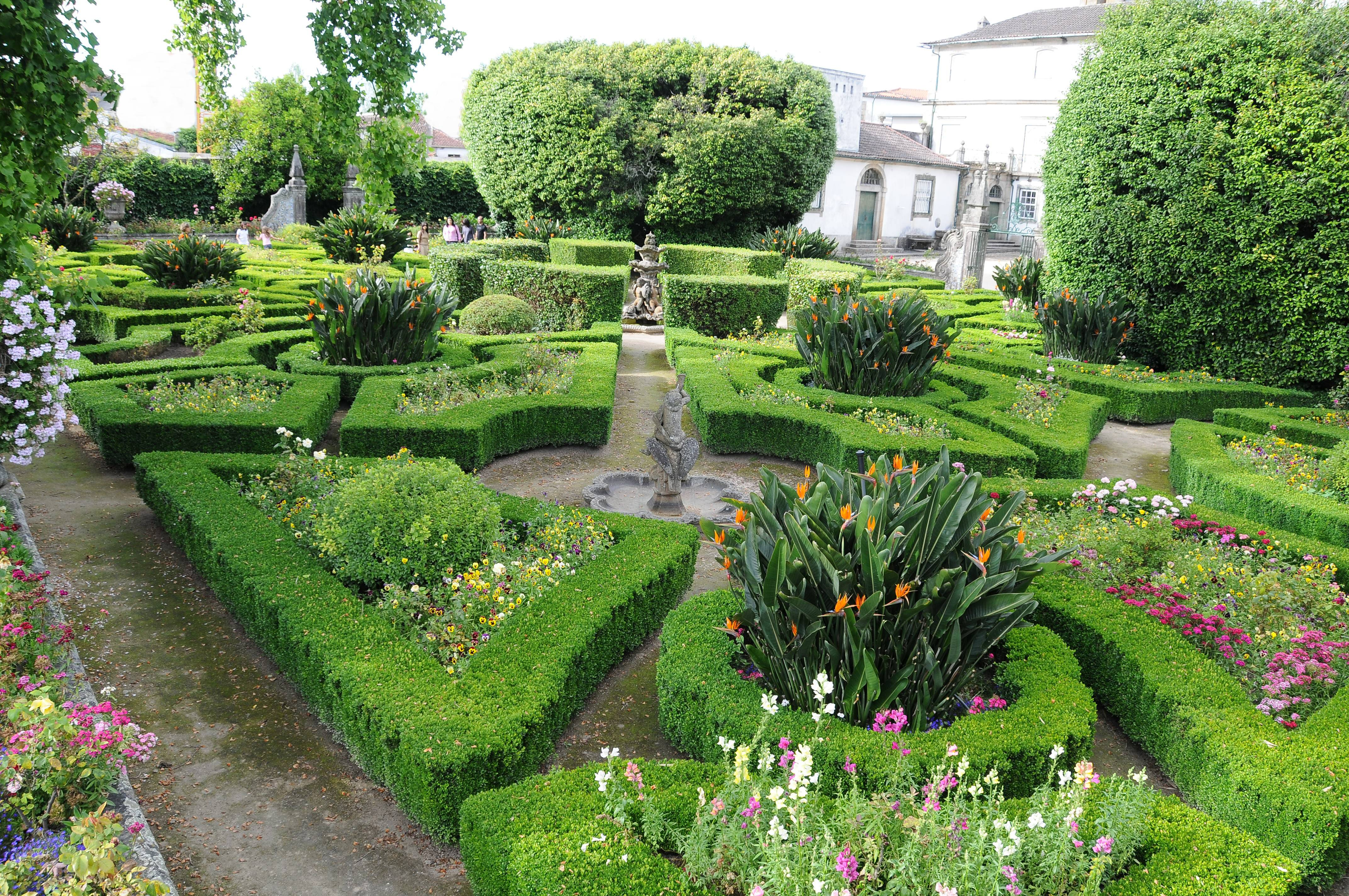 Biscainhos Garden, in Biscainhos Palace, Braga, Portugal